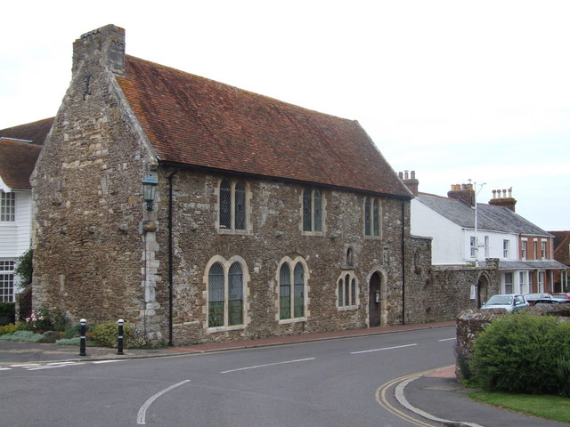 Winchelsea Museum, High Street, Winchelsea